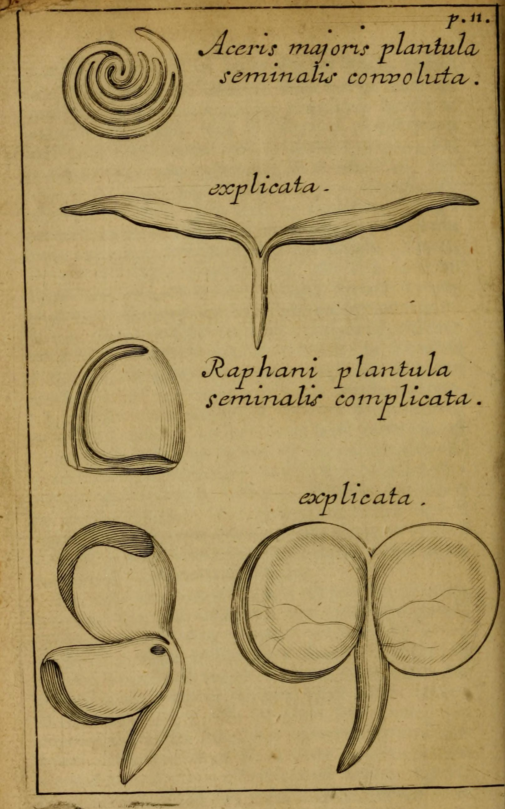 Reproduction by John Ray in his Methodus plantarum nova, of Marcello Malpighi's drawings of cotyledons in Anatome Plantarum (1679)